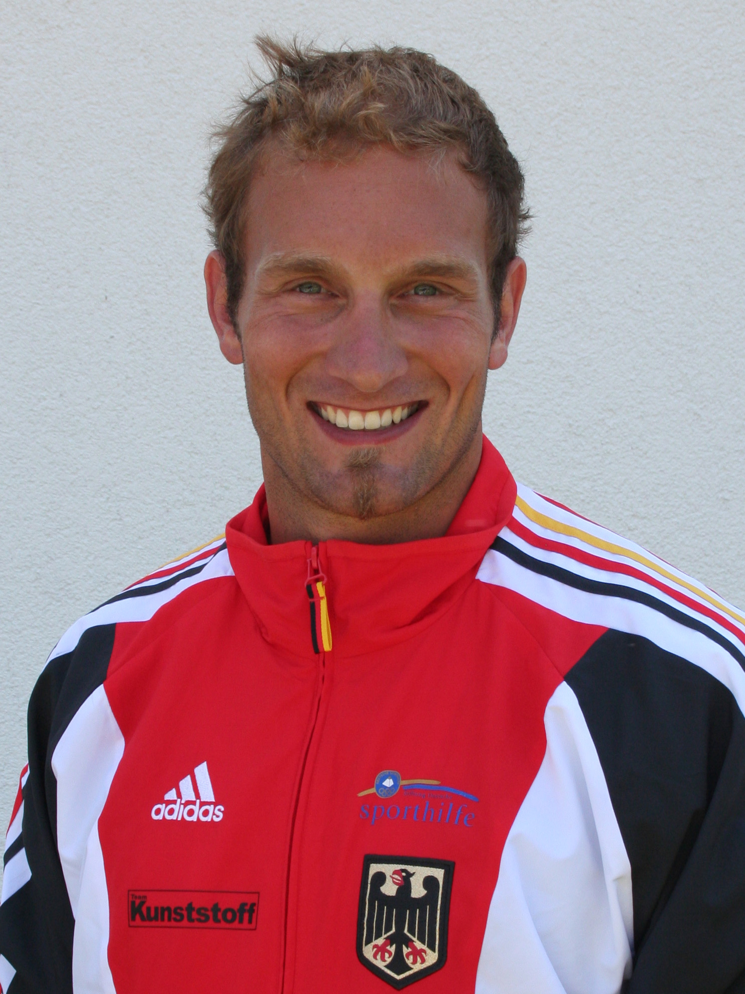 Björn Goldschmidt Olympic Bronzemedalist Worldchampion Canoe Sprint